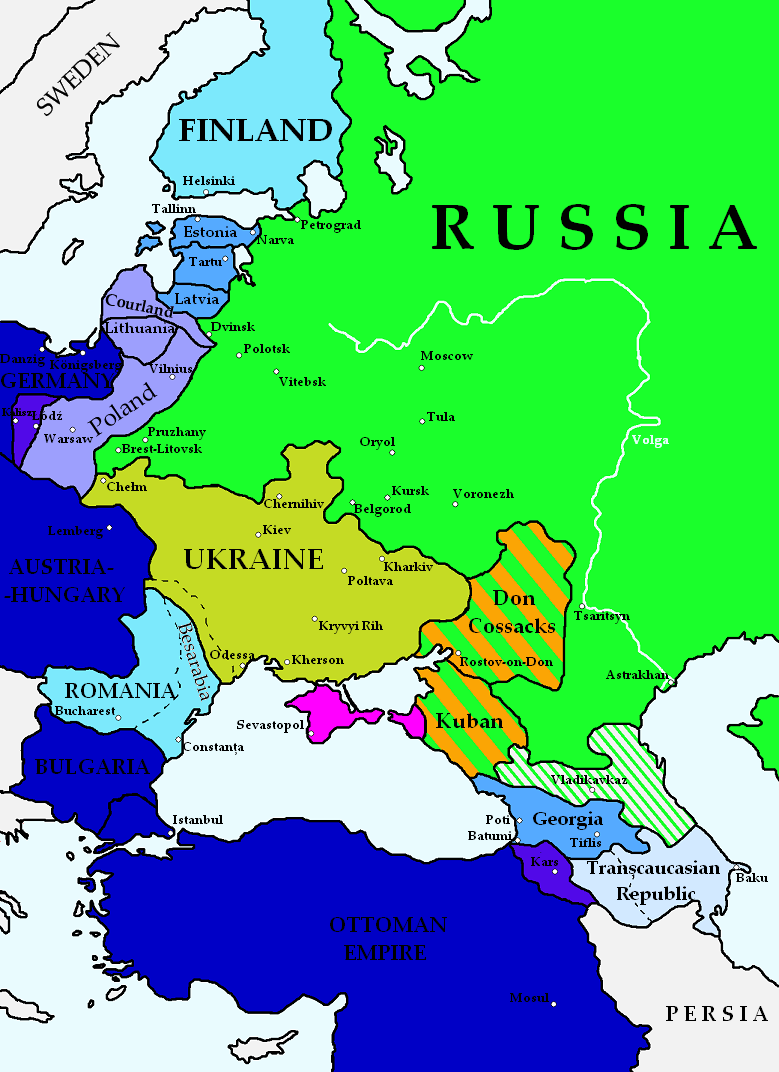 Map of German plans for a new political order in Central and Eastern Europe ("The Mitteleuropa Plan") after the Treaty of Brest-Litovsk of February 9th, 1918, Treaty of Brest-Litovsk of March 3rd, 1918 and Treaty of Bucharest of May 7th, 1918.